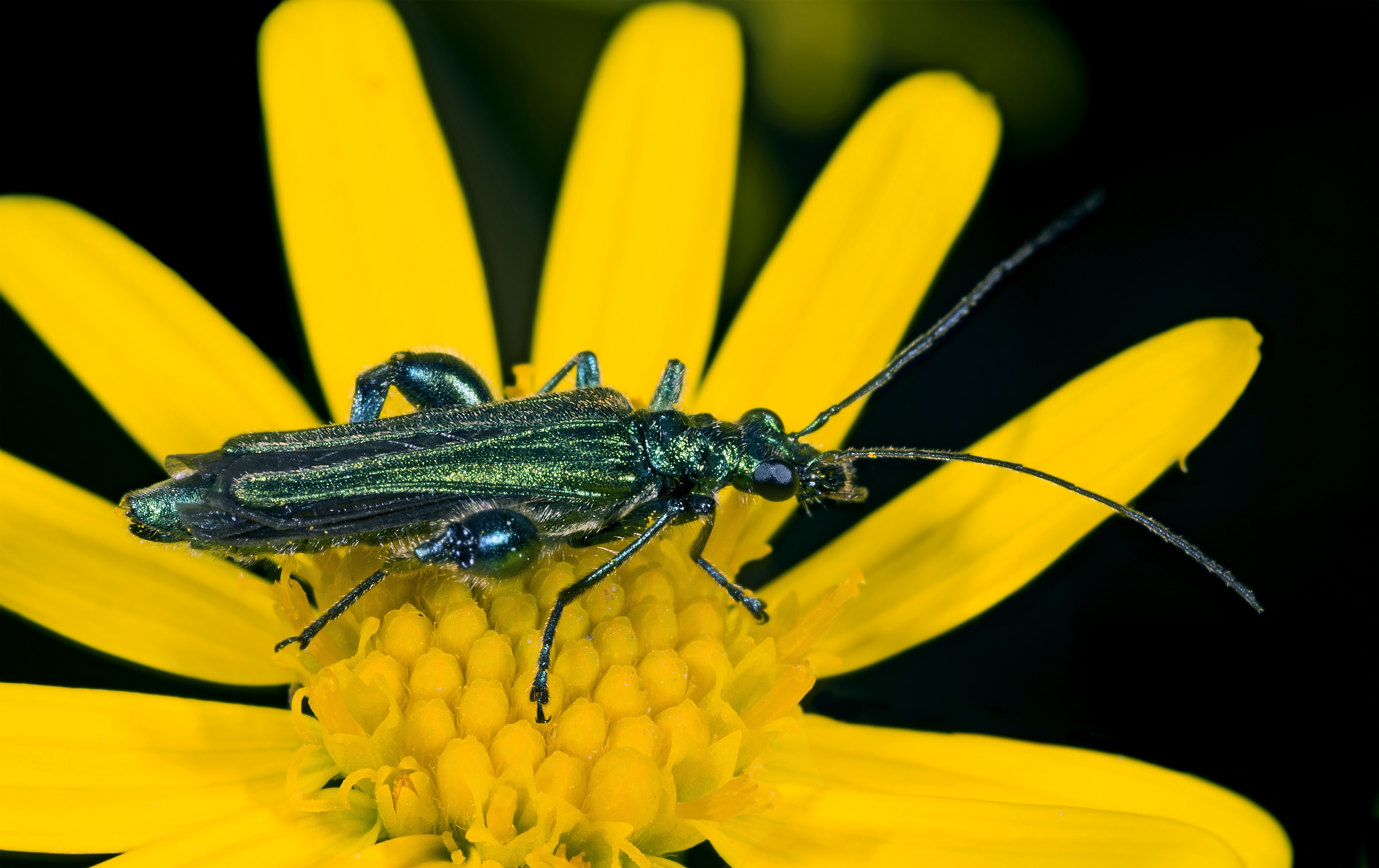 Thick-Legged Flower Beetle